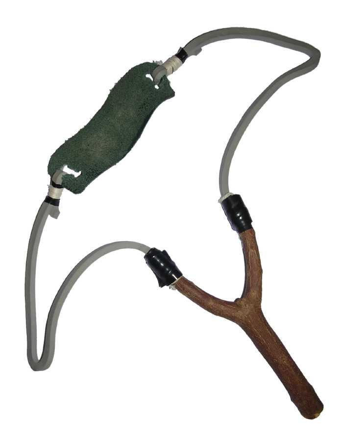 Slingshot, made (a little too fast) by a Spanish native, who learned to hunt with this in Morocco. Roots of this kind of slingshot are not clear, possible from Spain or Morocco.